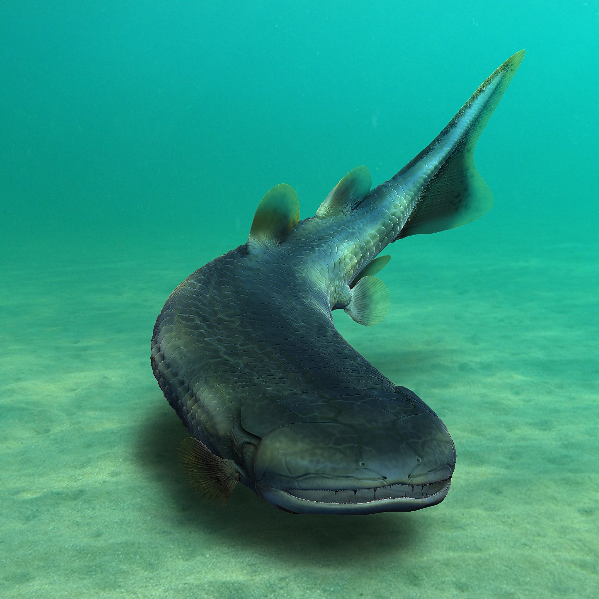 Reconstruction of Laccognathus embryi